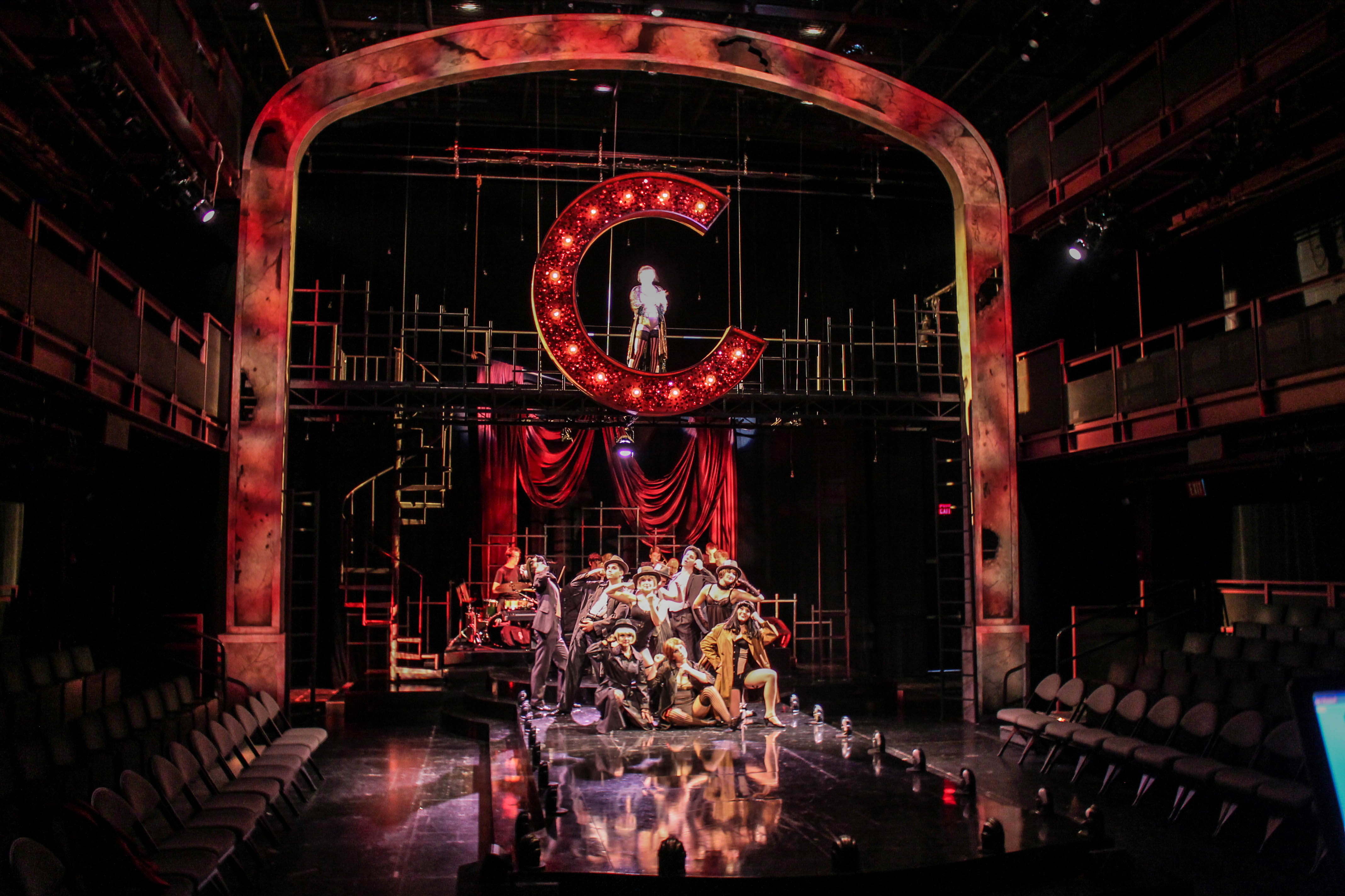 "Chicago" Scenic Design by Christopher Rhoton for Wells-Metz Theatre at Indiana University